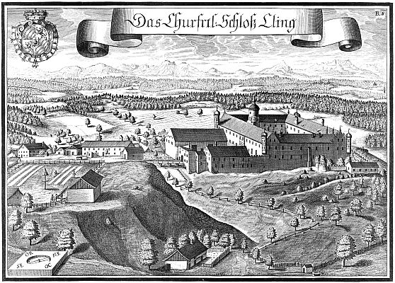 Schloss Kling by Michael Wening